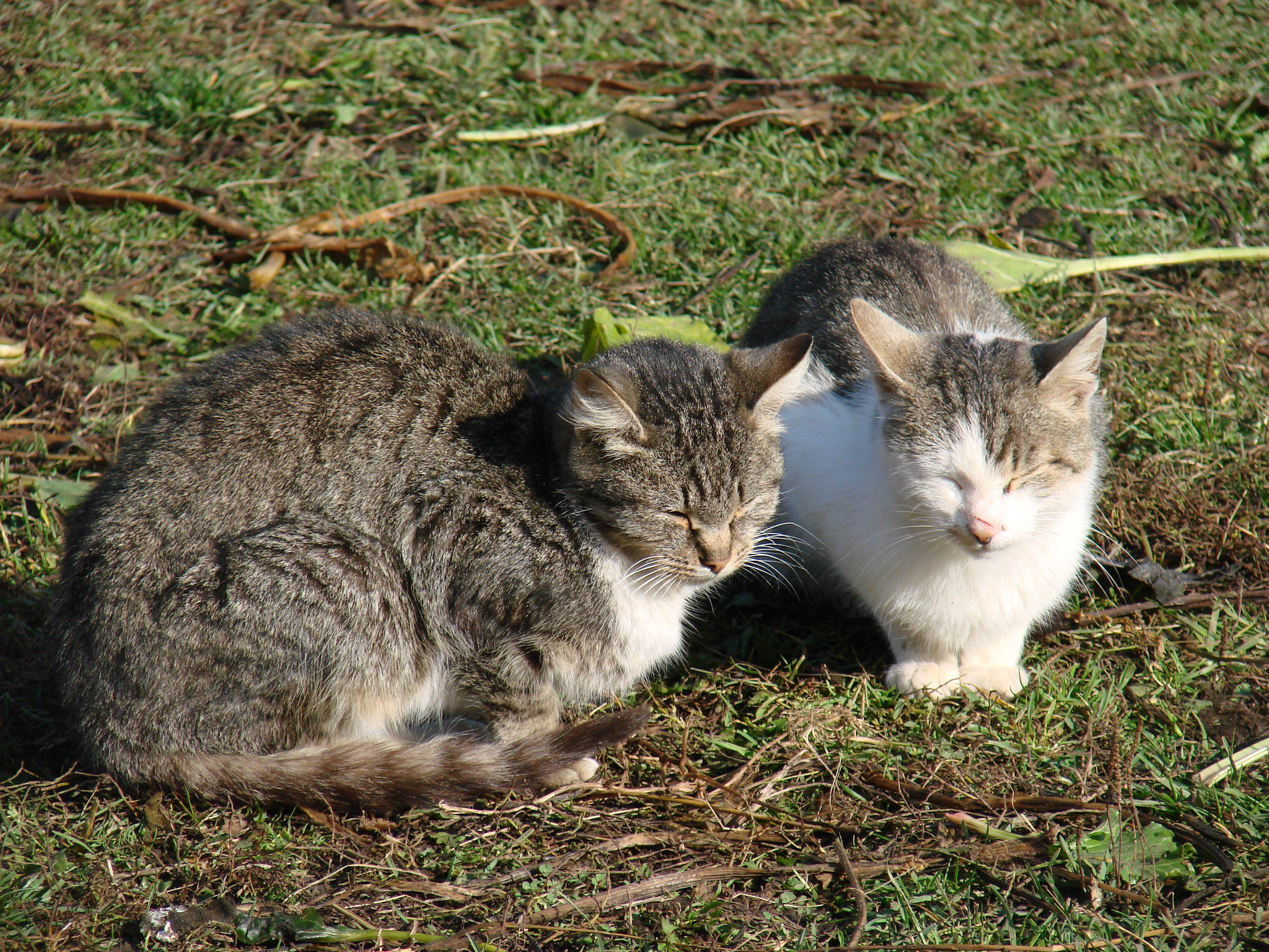 Housecats (Felis silvestris catus) in Csíkkarcfalva, Székely Land.